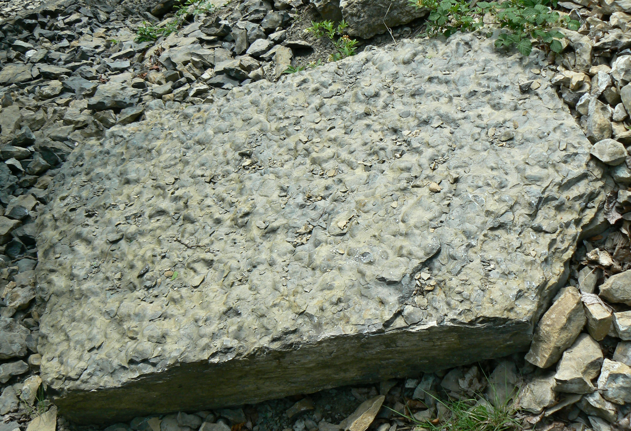 Nodular limestone in national natural monument Černá rokle, Prague